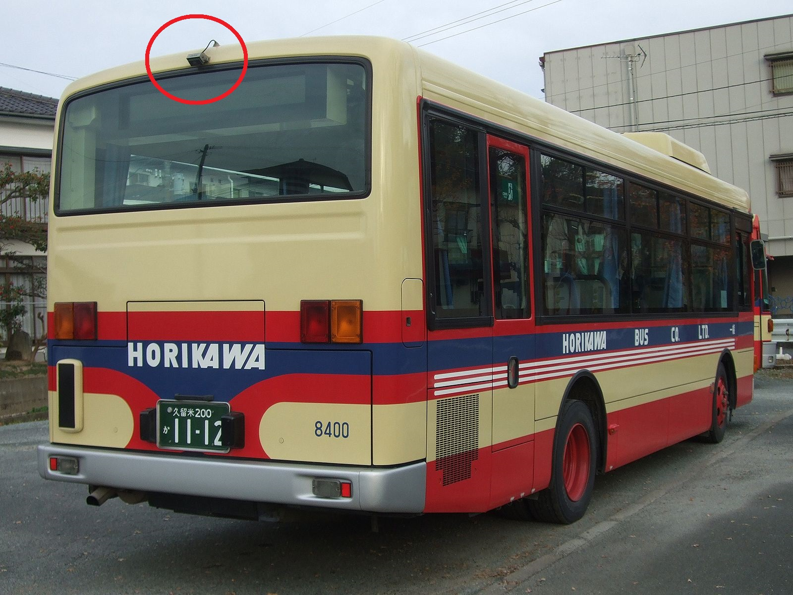 Company:Horikawa Bus Use:transit bus Car license:FOR 200 KA 1112 Code:8400 Chassis manufacturer:Isuzu Motors Type:Erga Mio Coachbuilder:J-BUS Location:In Kurume City, Fukuoka, Japan.